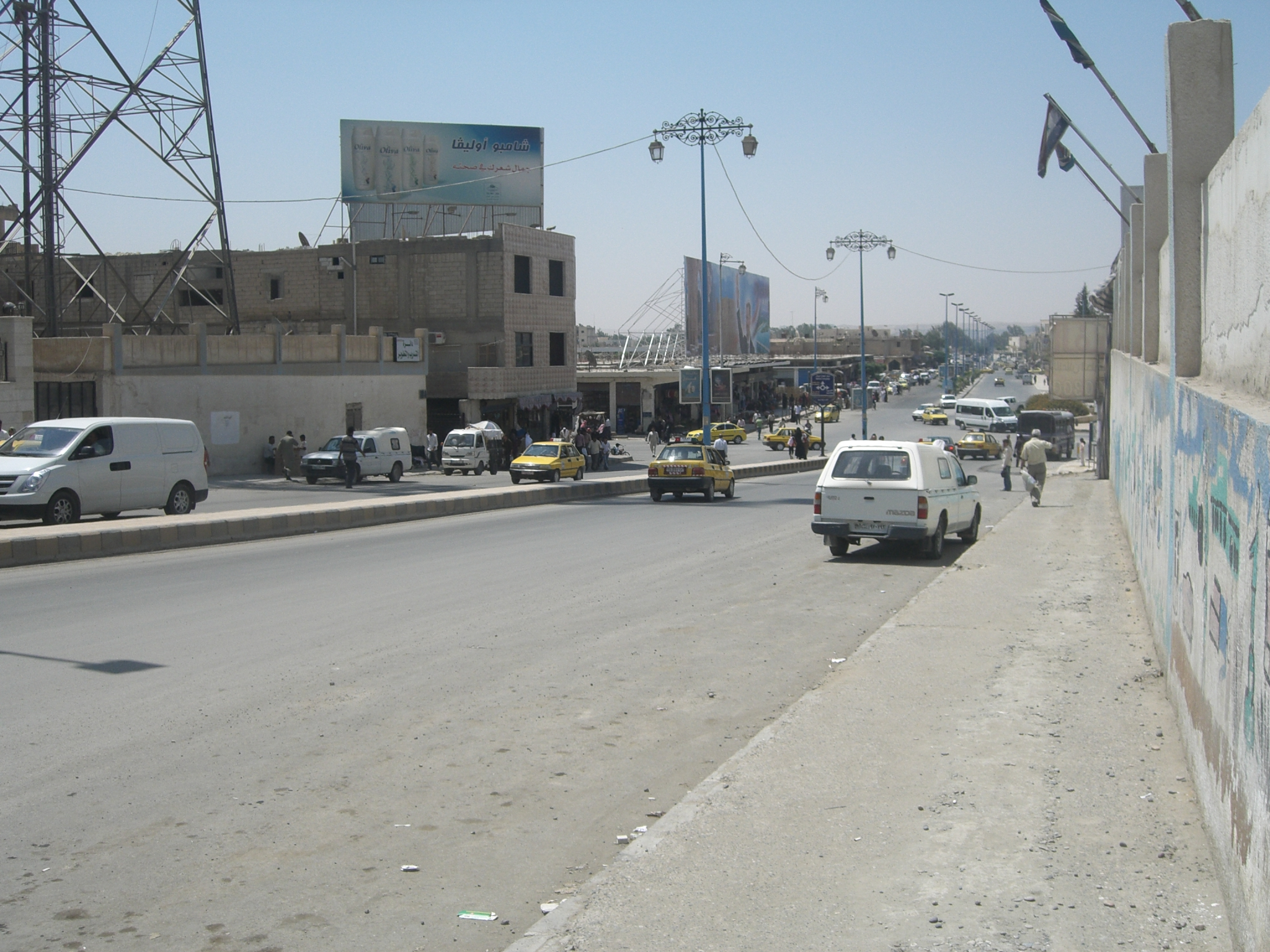 A major street in ar-Raqqah